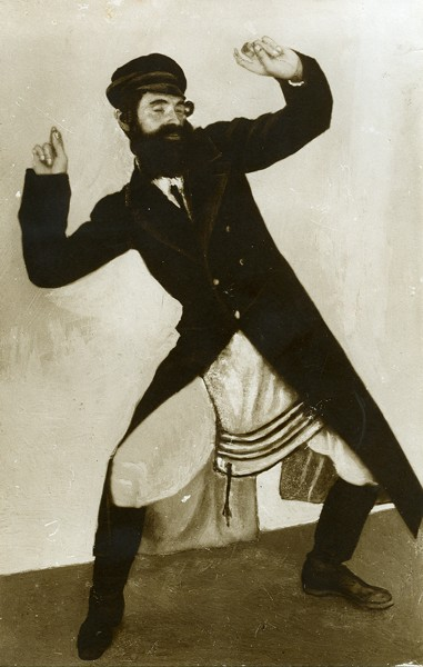 Baruch Agadati